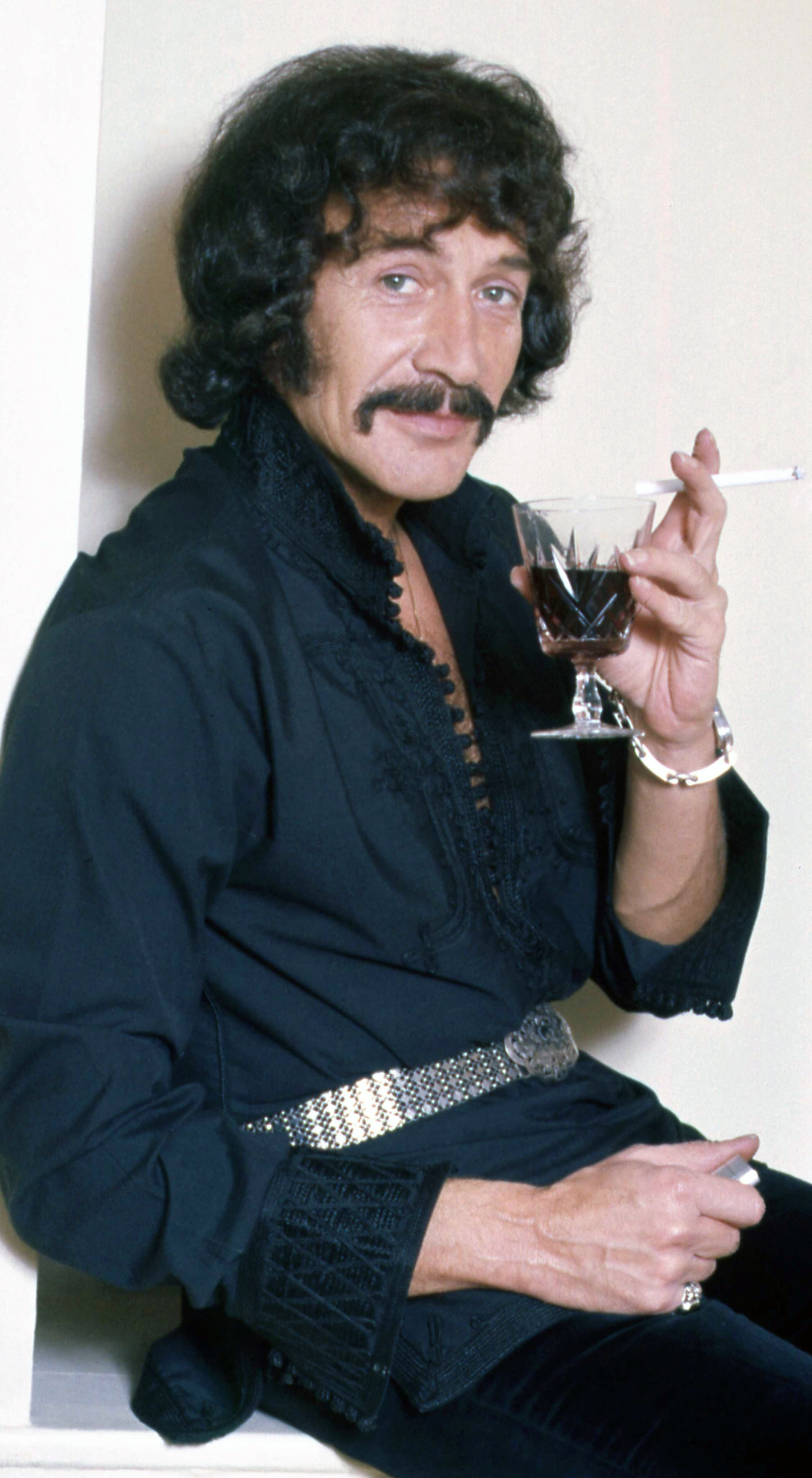 Peter Wyngarde taken at the photographer's apartment London